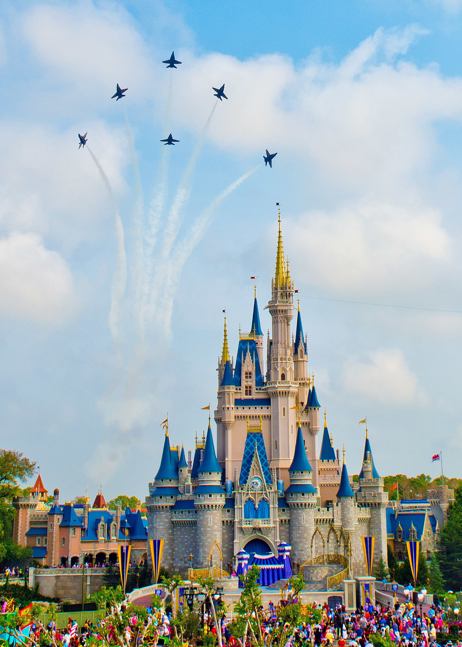 150319-N-KG934-082 ORLANDO, Fla. -- The U.S. Navy Flight Demonstration Squadron, the Blue Angels, execute the Delta Breakout over the Cinderella Castle in the Magic Kingdom at Walt Disney World en route to the Melbourne Air and Space Show March 19. The Blue Angels are scheduled to fly in 68 performances at 35 locations in 2015.